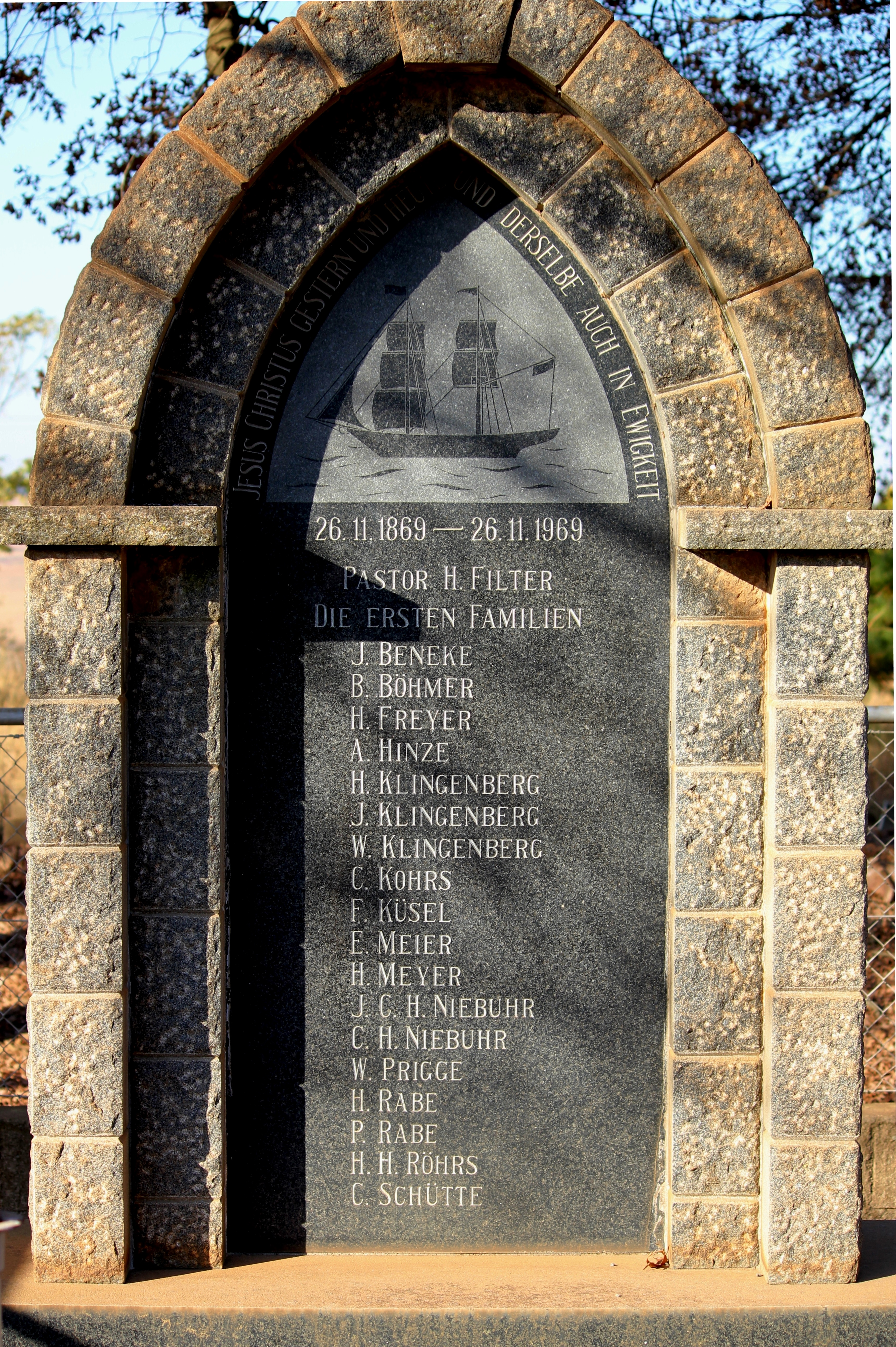 A 1969 memorial to the 1869 immigrants to Lüneburg, KwaZulu-Natal. See also: eGGSA library